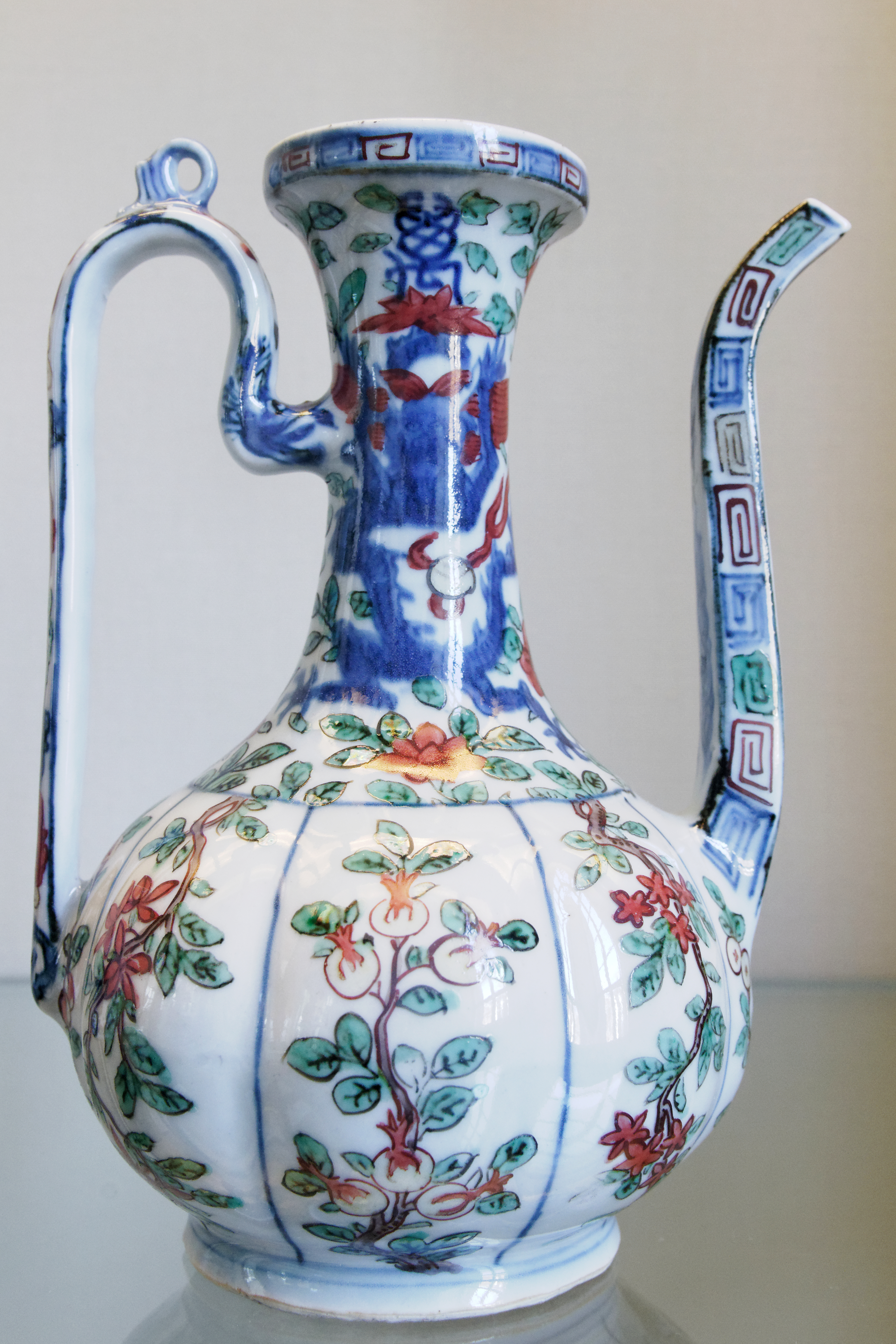 Ewer with fruit, foliage and a dragon, bearing the reign mark of Emperor Wanli. Wucai style, made in Jingdezhen, Jiangxi, Ming dynasty.